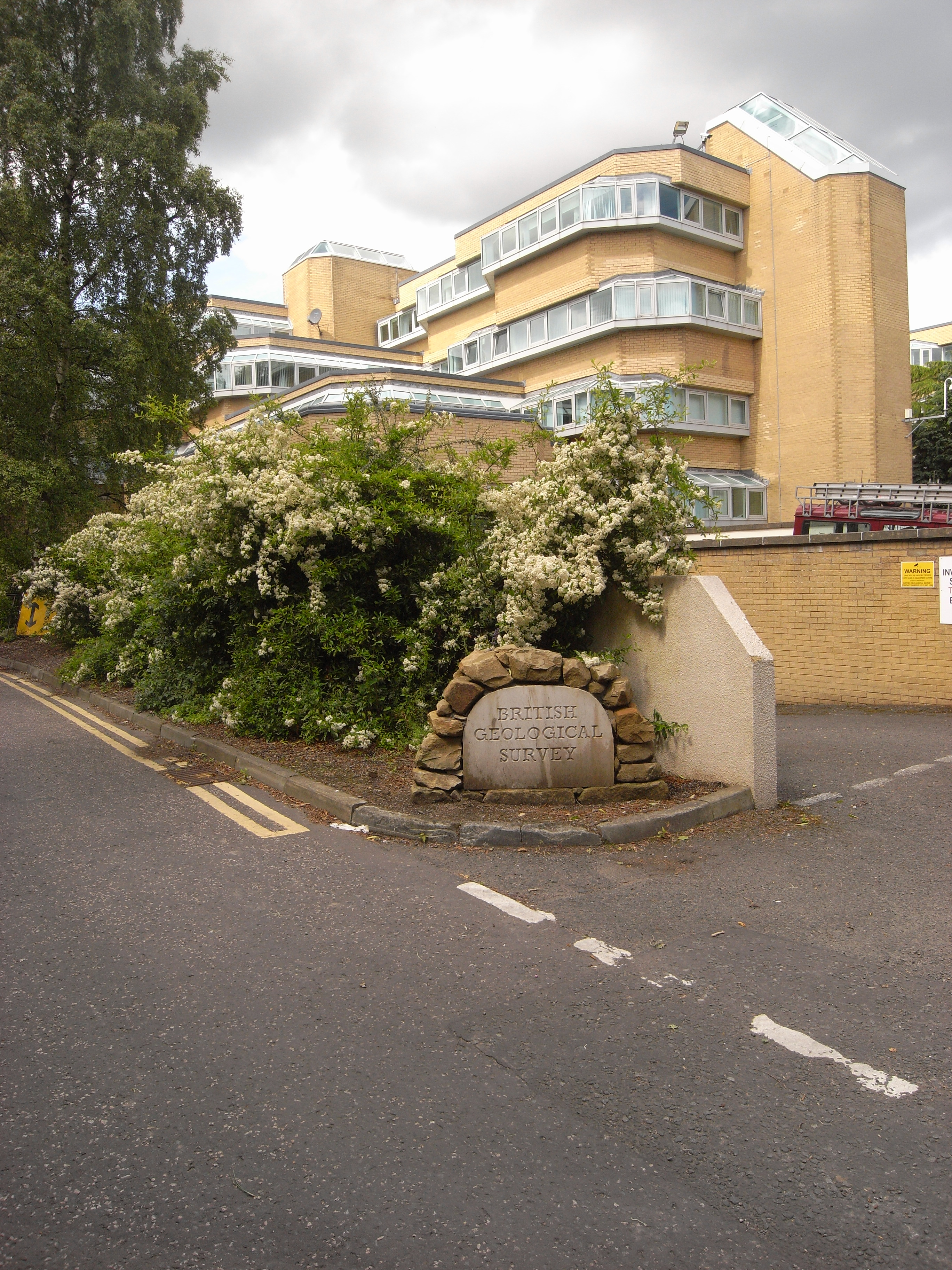 Scotish head office of the BGS in Edinburgh (Murchison House)